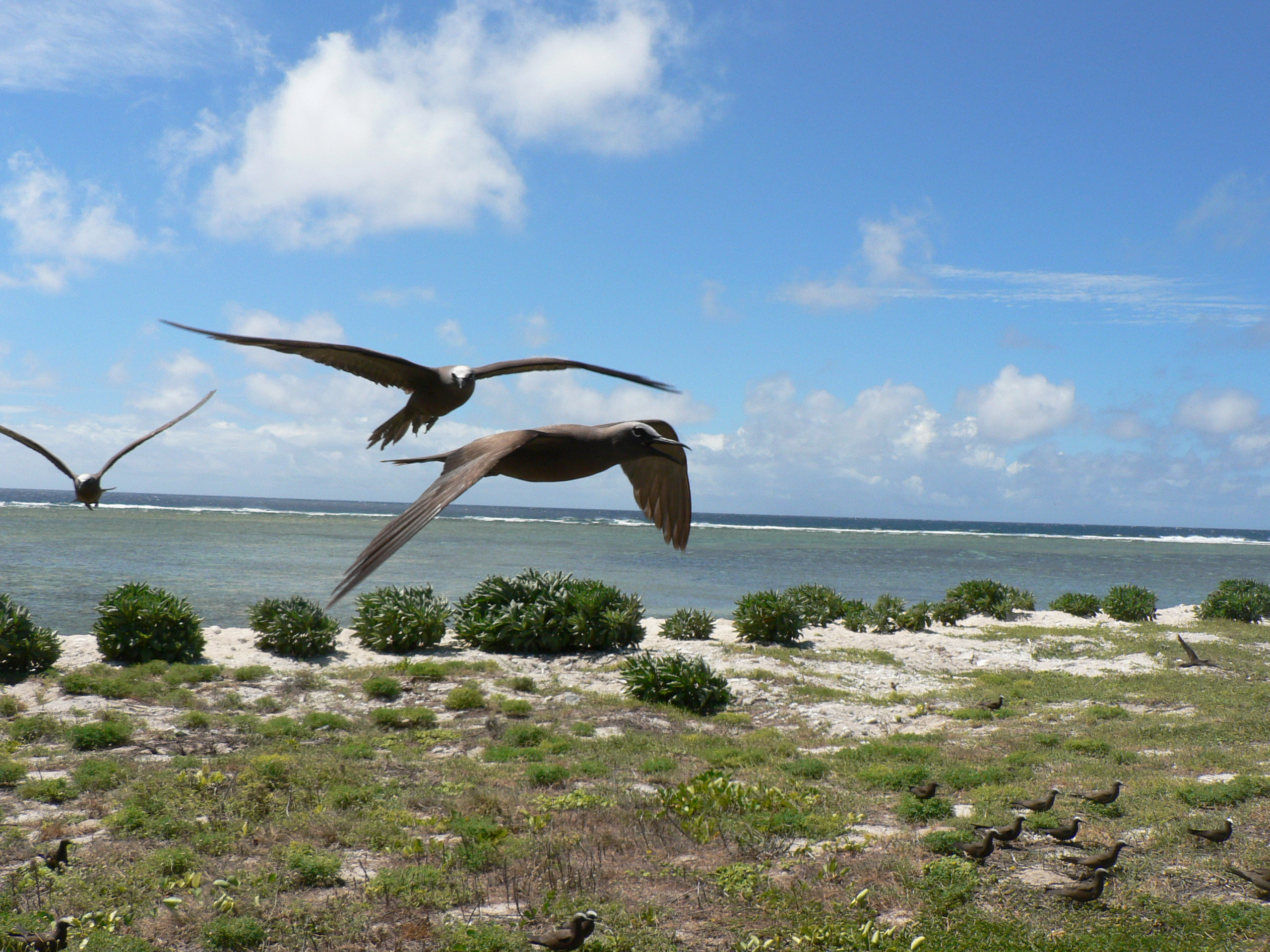 Black Noddies on the end of the landing strip on Lady Elliot Island. Author: Graham Berry, 2007